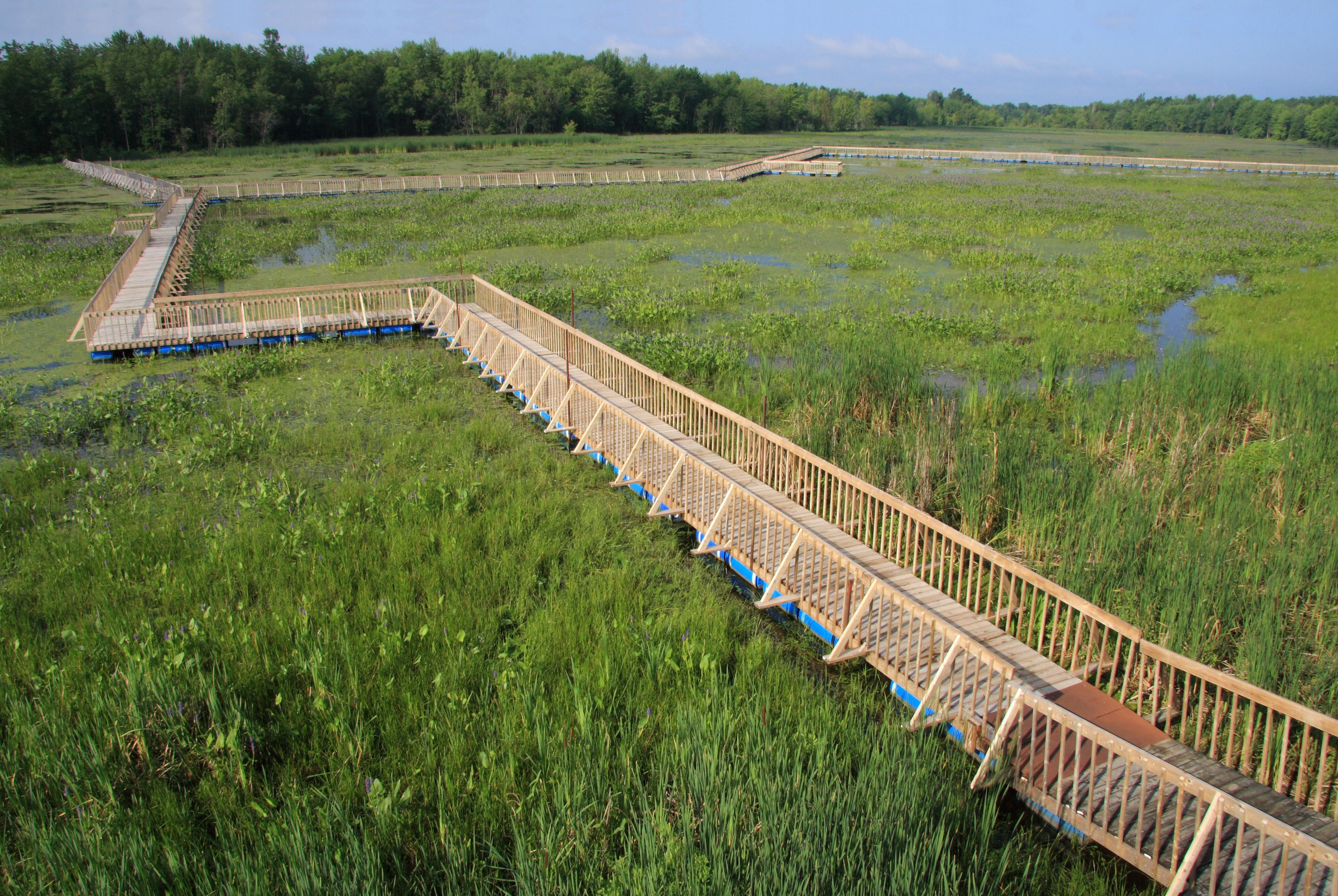 Zizanie des marais trail, Plaisance National Park, Quebec, Canada